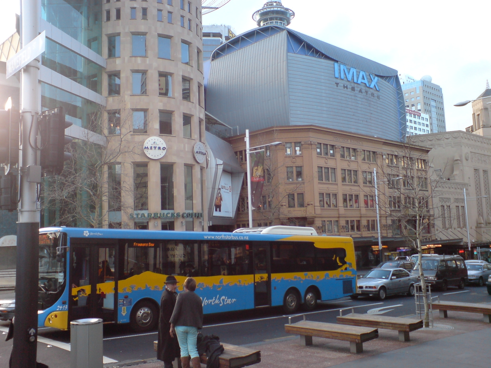 The Skycity Village Cinemas next to Aotea Square in Auckland City, New Zealand.